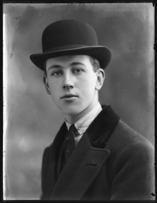 Dominick Geoffrey Edward Browne, 4th Baron Oranmore and Browne, by Bassano Ltd, 16 April 1920.